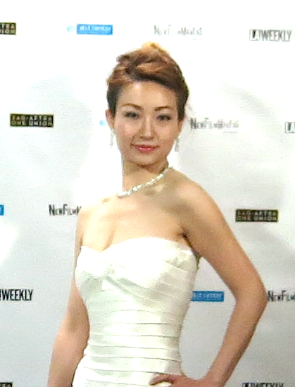 Natalie Ni Shi at New Film Maker Festival Los Angeles